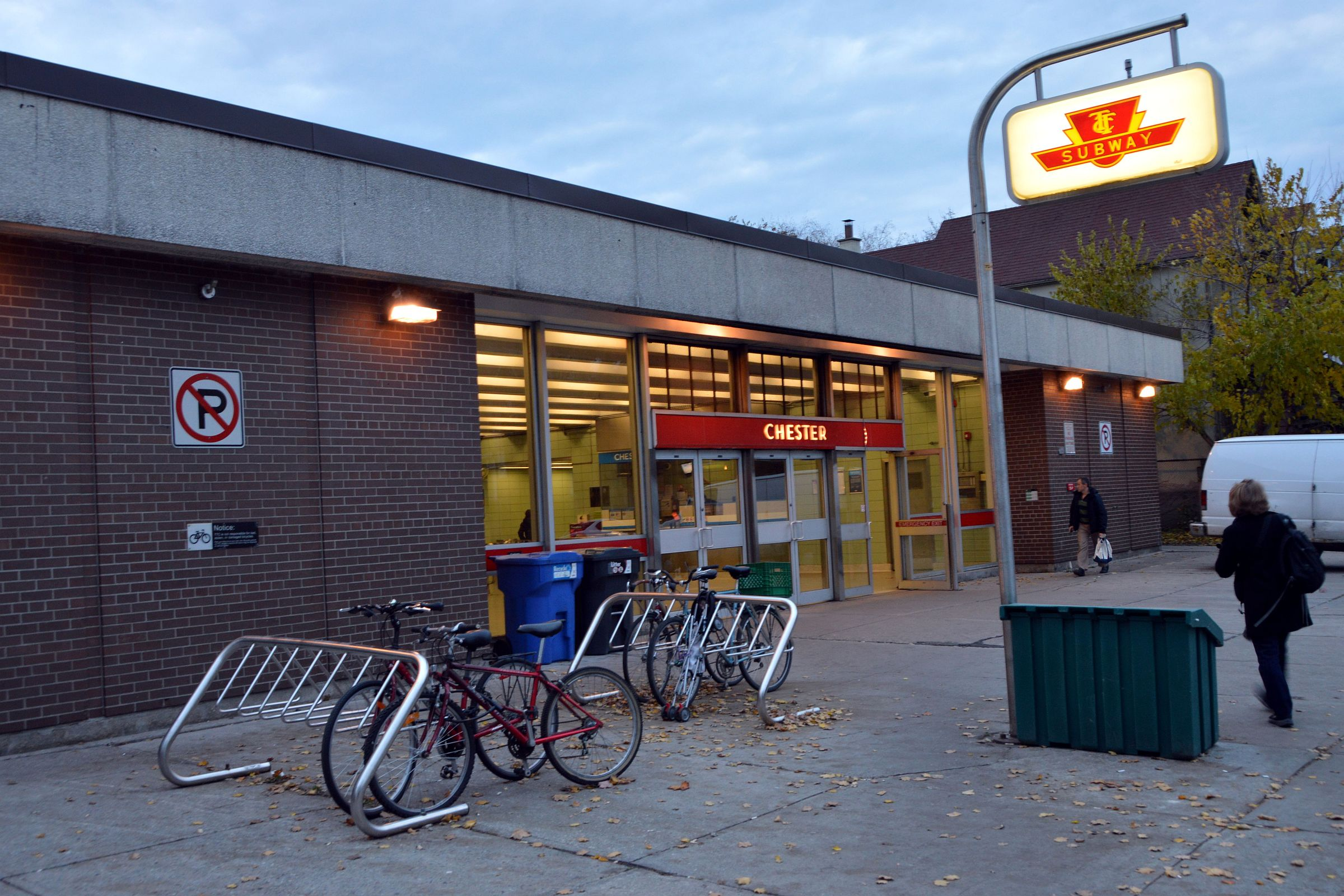 Chester TTC subway station in Toronto